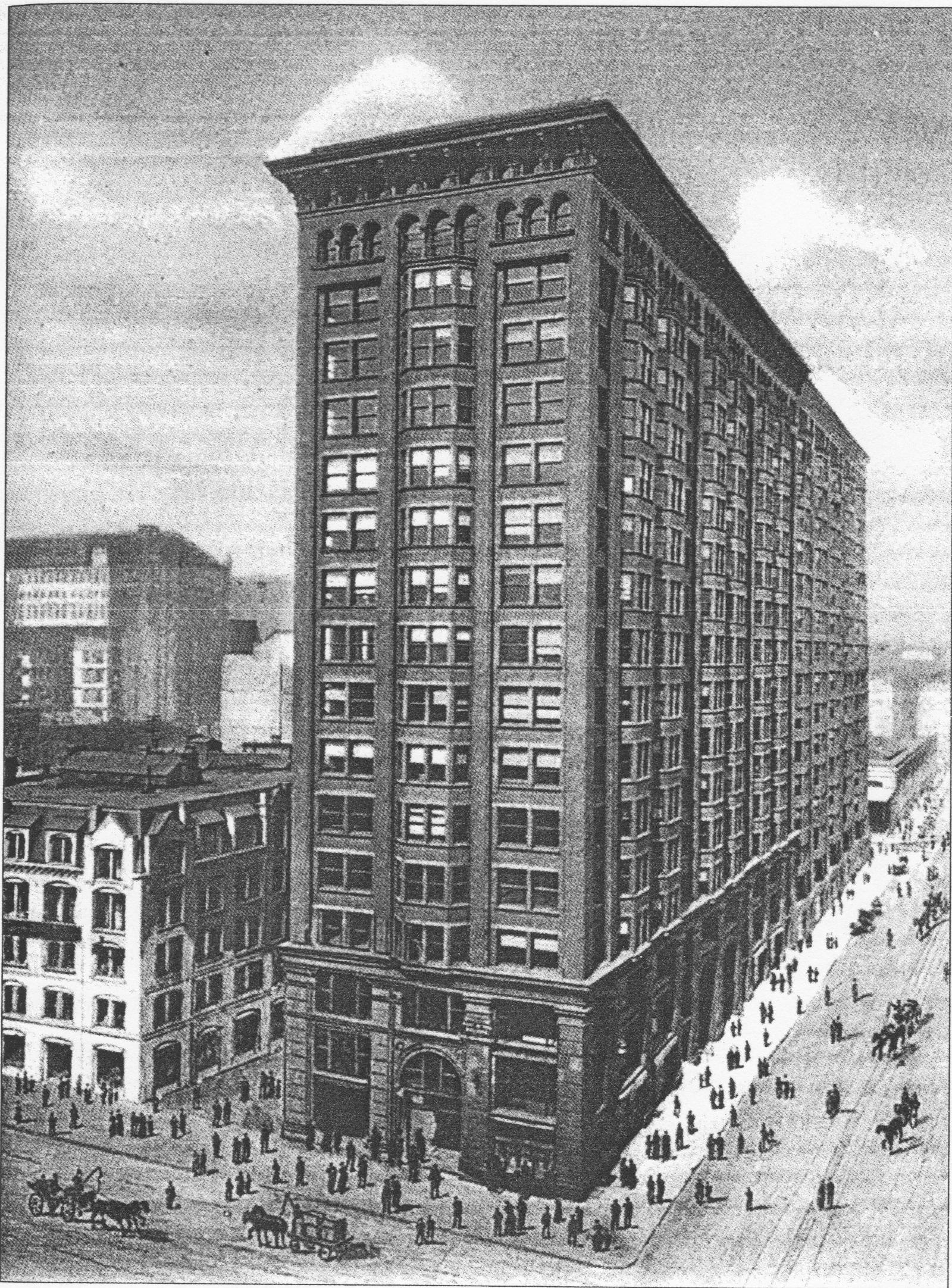 Monandock Building, Chicago, seen from VanBuren Street. Found in Hudson, L. (2004). Chicago skyscrapers in vintage postcards. Postcard history series. Charleston, SC: Arcadia, p. 65. Date